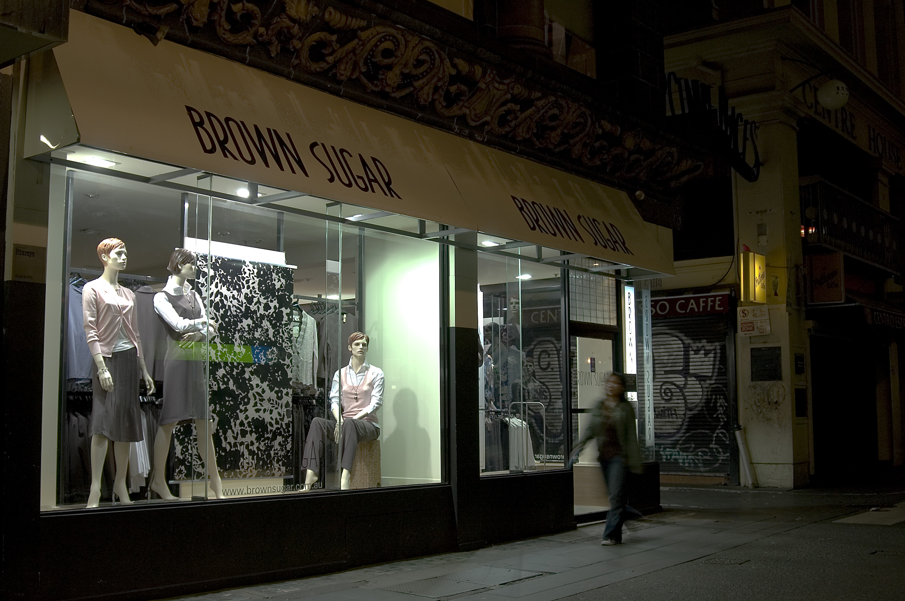 Shop front on Flinders Lane, Melbourne.